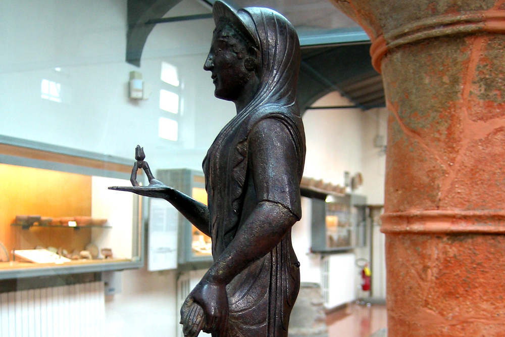 Etruscan museum at Marzabotto. Bonze statue that could represent the Etruscan divinity of Turan, corresponding to the Greek Aphrodite This is a photo of a monument which is part of cultural heritage of Italy.